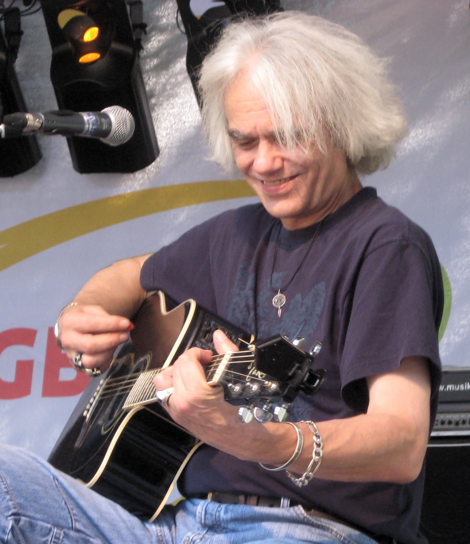 The austrian musician Ulli Bäer at the Donauinsel festival 2012